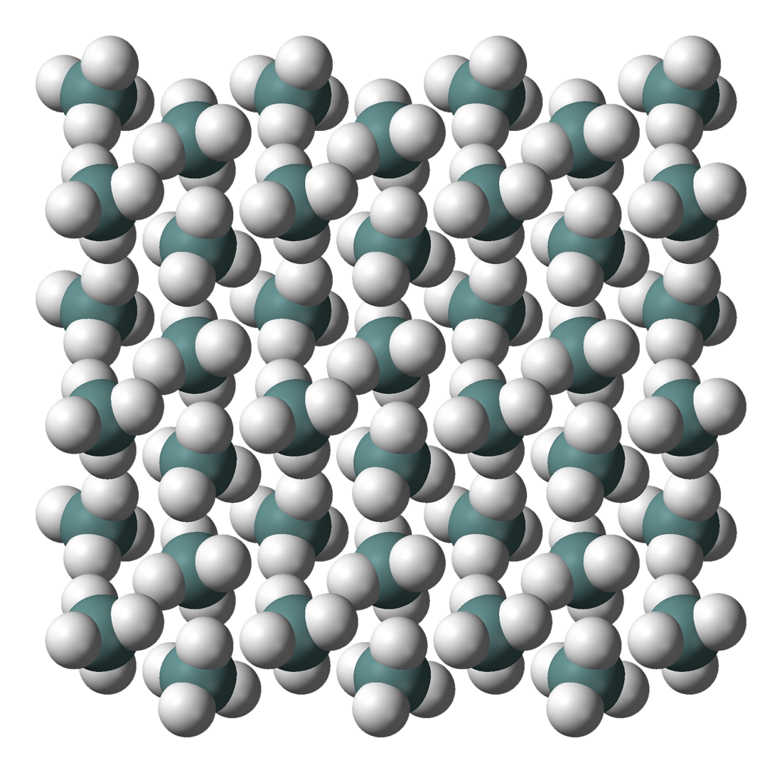 Space-filling model of part of the crystal structure of germane, GeH4, at 5 K (−268 °C). Neutron diffraction data from Acta Cryst. (2008). B64, 312-317.